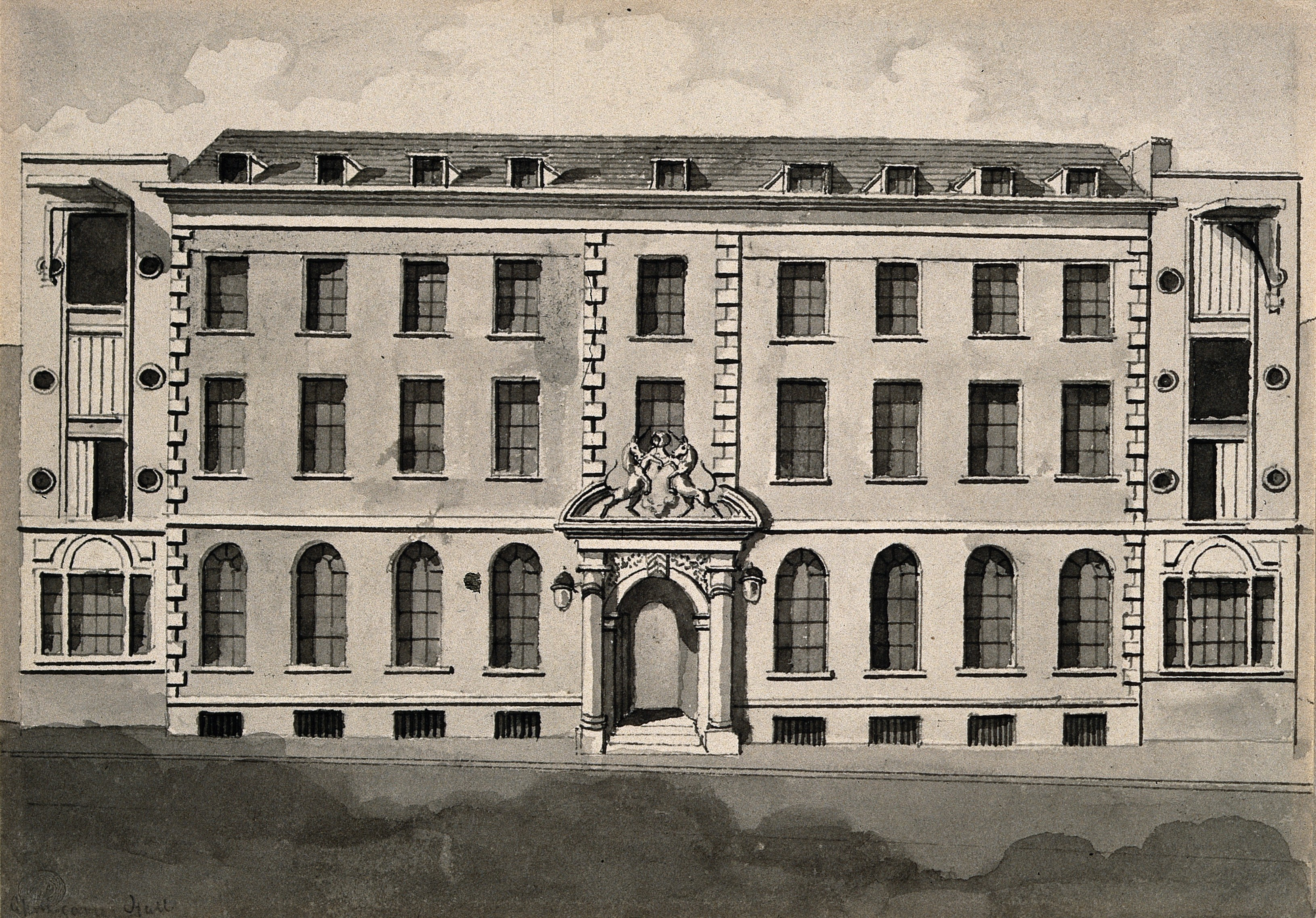 Apothecaries' Hall, Blackfriars Lane, London: the facade. Drawing. Iconographic Collections Keywords: John Young; ic; Worshipful Society of Apothecaries (London, England); young, john d.1679, architect; Apothecaries' Hall (London, England)